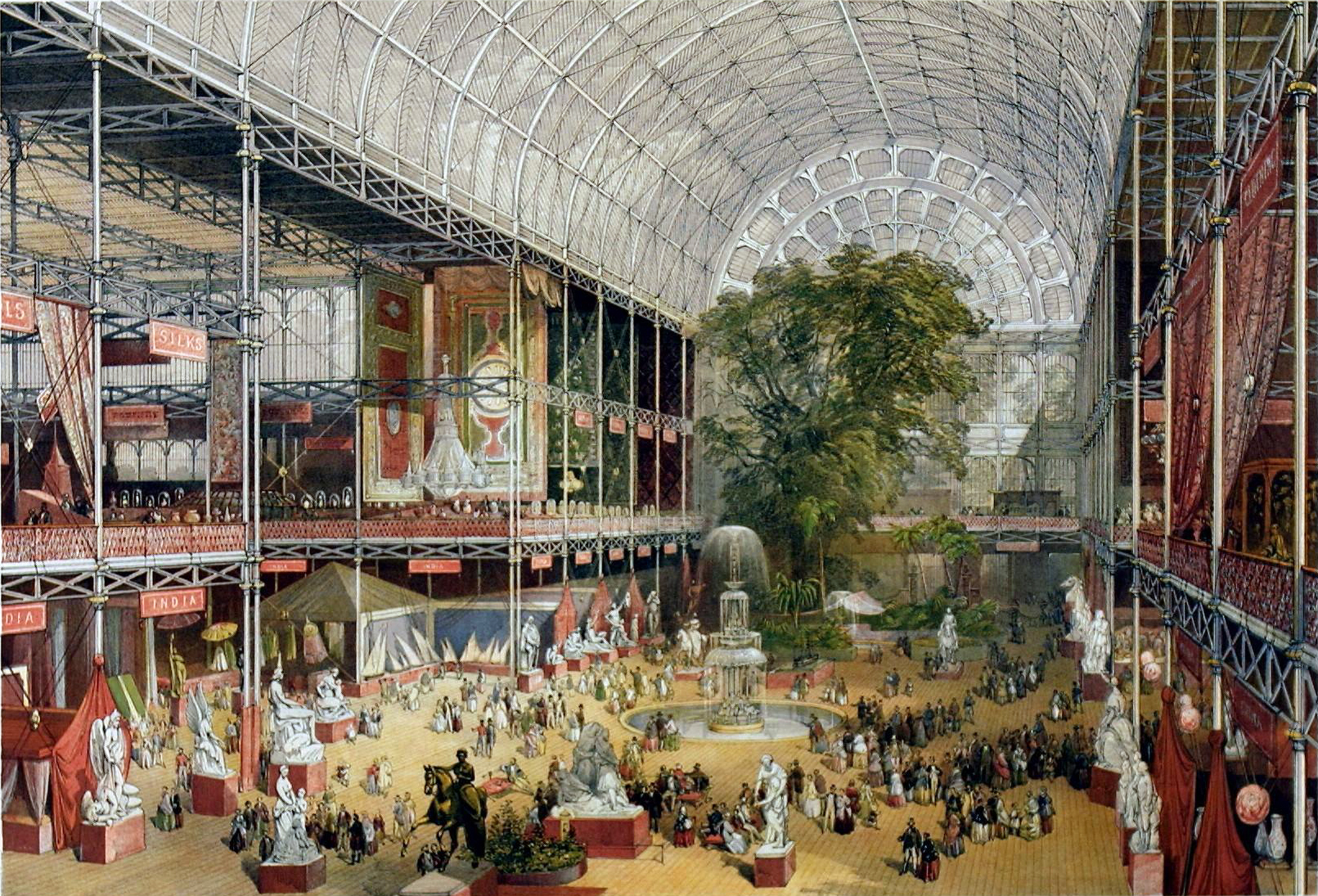 McNeven, J., The transept from the Grand Entrance, Souvenir of the Great Exhibition , William Simpson (lithographer), Ackermann & Co. (publisher), 1851, V&A